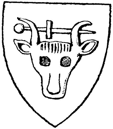 Coat of arms Pomian from the seal of Dawgirdas, 1433